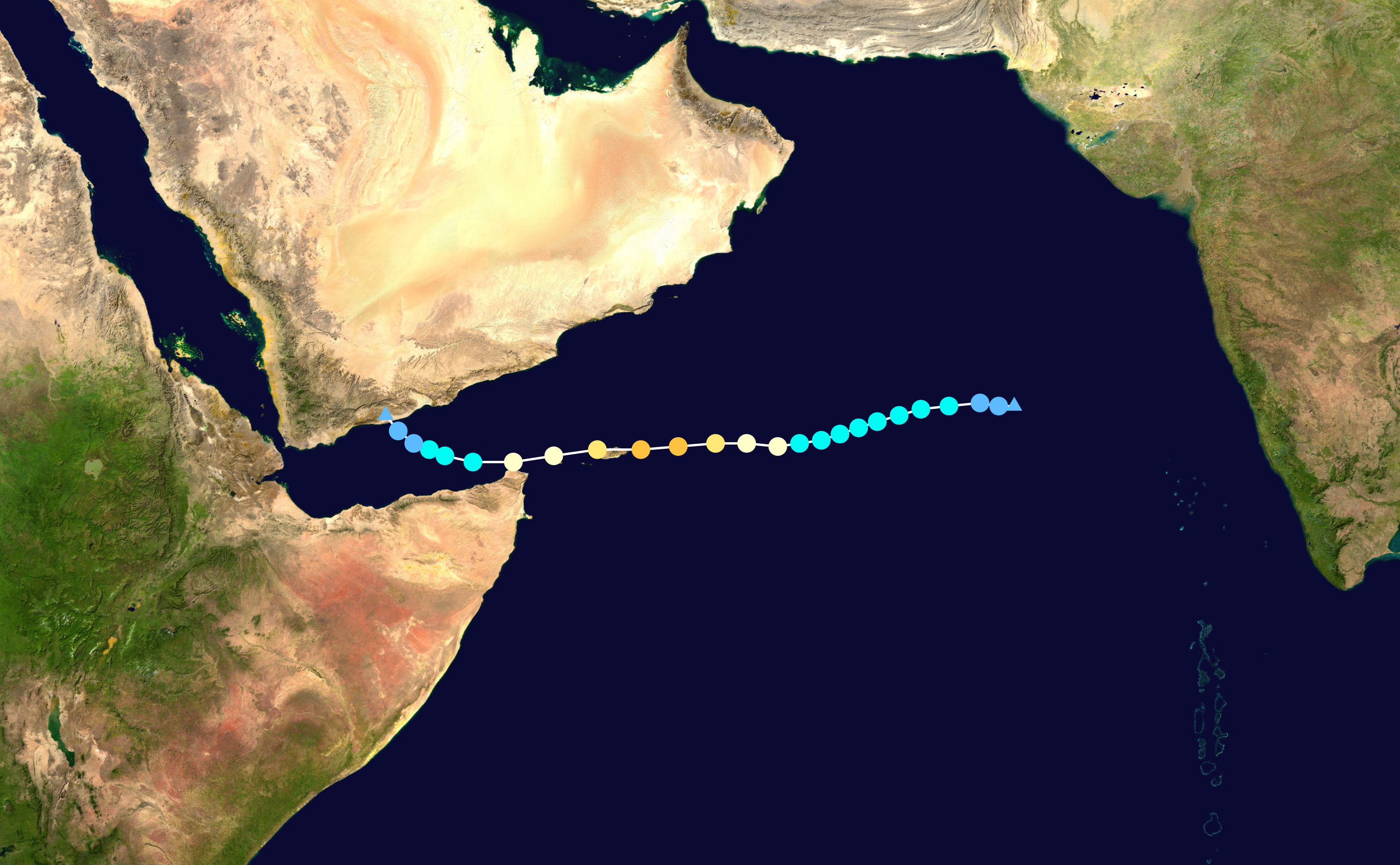 Track map of Extremely Severe Cyclonic Storm Megh of the 2015 North Indian Ocean cyclone season. The points show the location of the storm at 6-hour intervals. The colour represents the storm's maximum sustained wind speeds as classified in the Saffir–Simpson scale (see below), and the shape of the data points represent the nature of the storm, according to the legend below. Saffir–Simpson scale Tropical depression≤38 mph≤62 km/h Category 3111–129 mph178–208 km/h Tropical storm39–73 mph63–118 km/h Category 4130–156 mph209–251 km/h Category 174–95 mph119–153 km/h Category 5≥157 mph≥252 km/h Category 296–110 mph154–177 km/h Unknown Storm type Tropical cyclone Subtropical cyclone Extratropical cyclone / Remnant low / Tropical disturbance / Monsoon depression